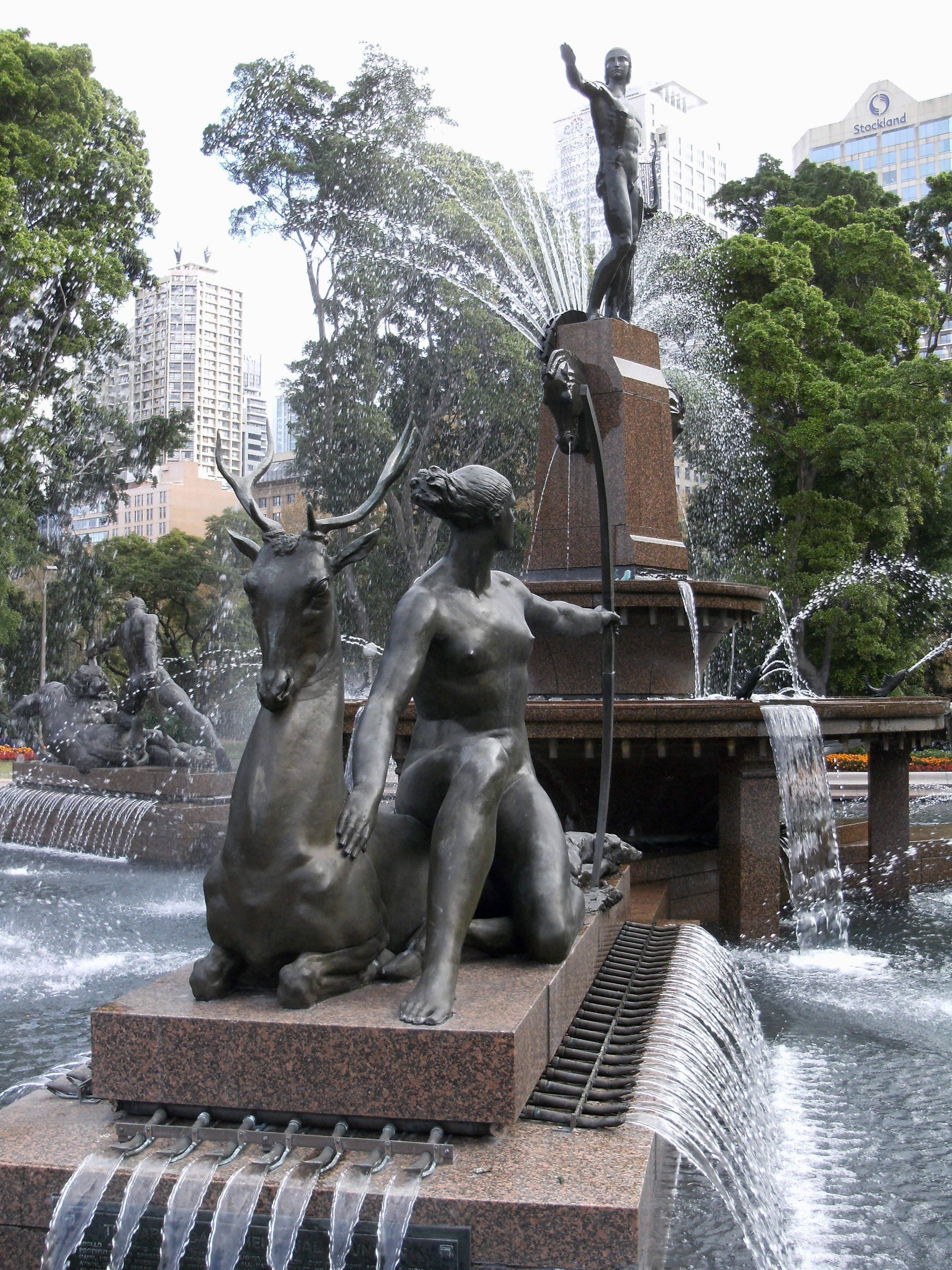 Diana the Huntress (1932), Archibald Fountain, Sydney.